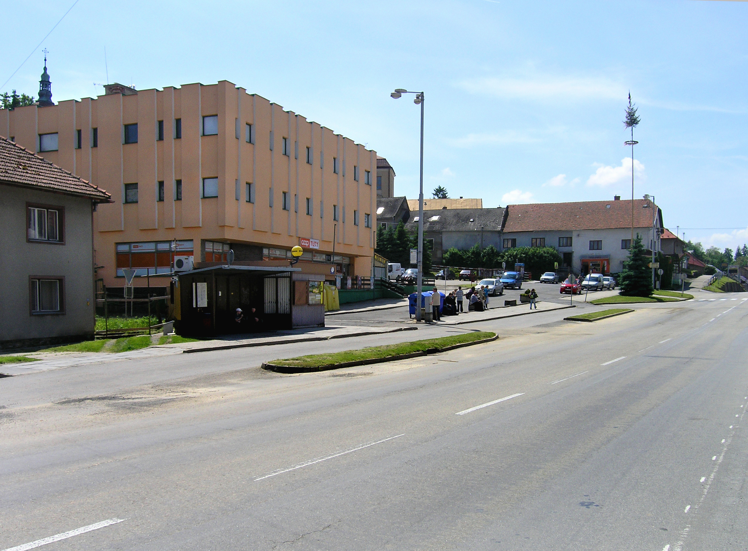 Náměstí square in Zdounky, Czech Republic